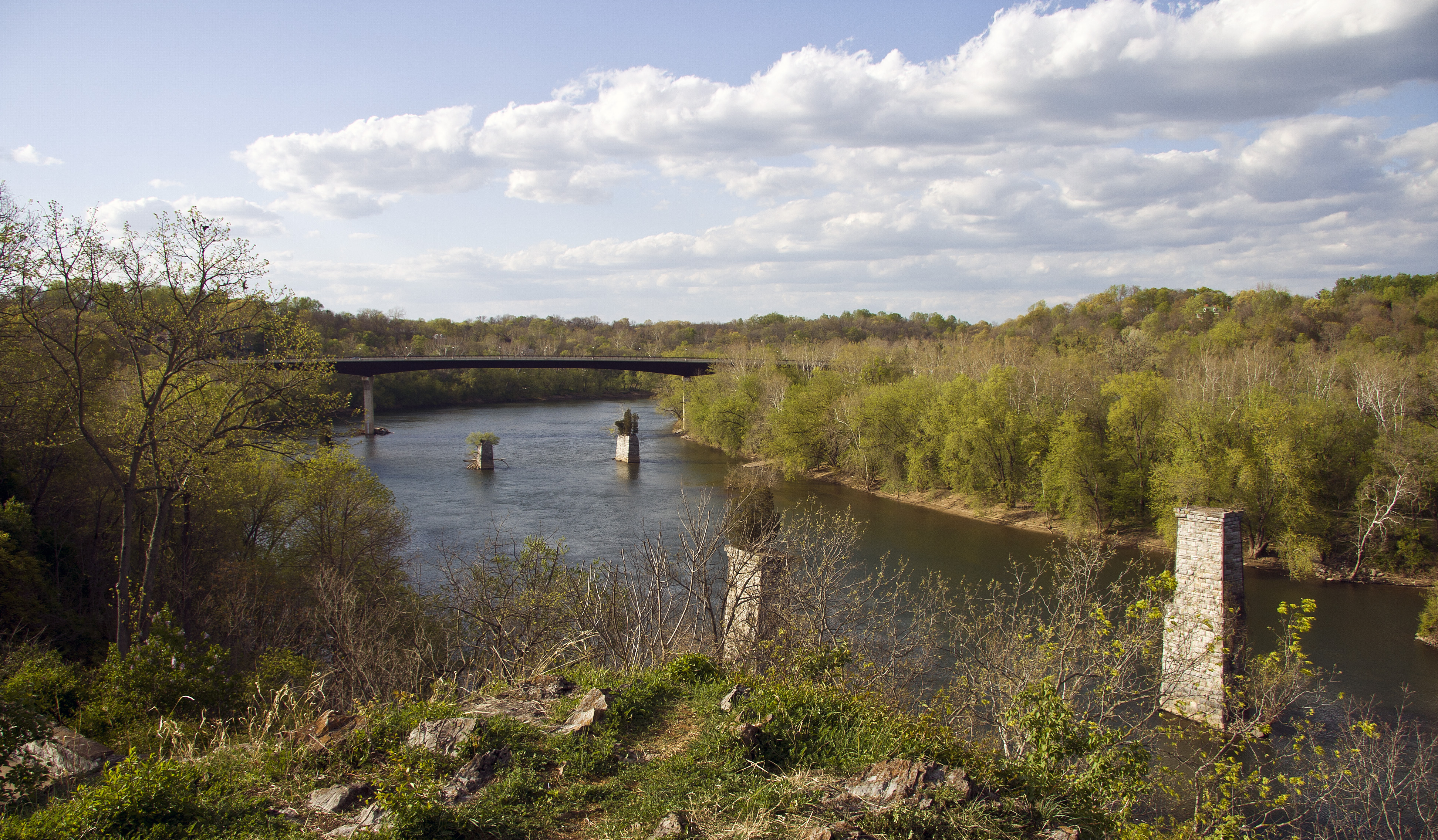 The Potomac River at Shepherdstown, West Virginia, USA, with the James Rumsey Bridge in the background, looking north from the James Rumsey Monument.